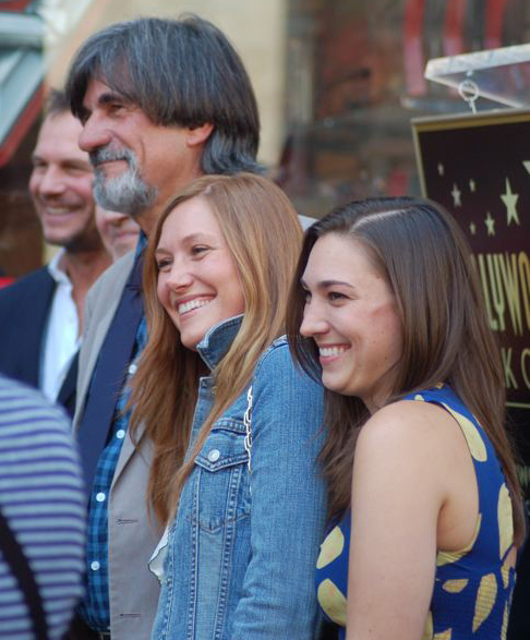 Bill Paxton Jack Fisk, Schuyler Fisk and Madison Fisk at a ceremony for Sissy Spacek to receive a star on the Hollywood Walk of Fame.